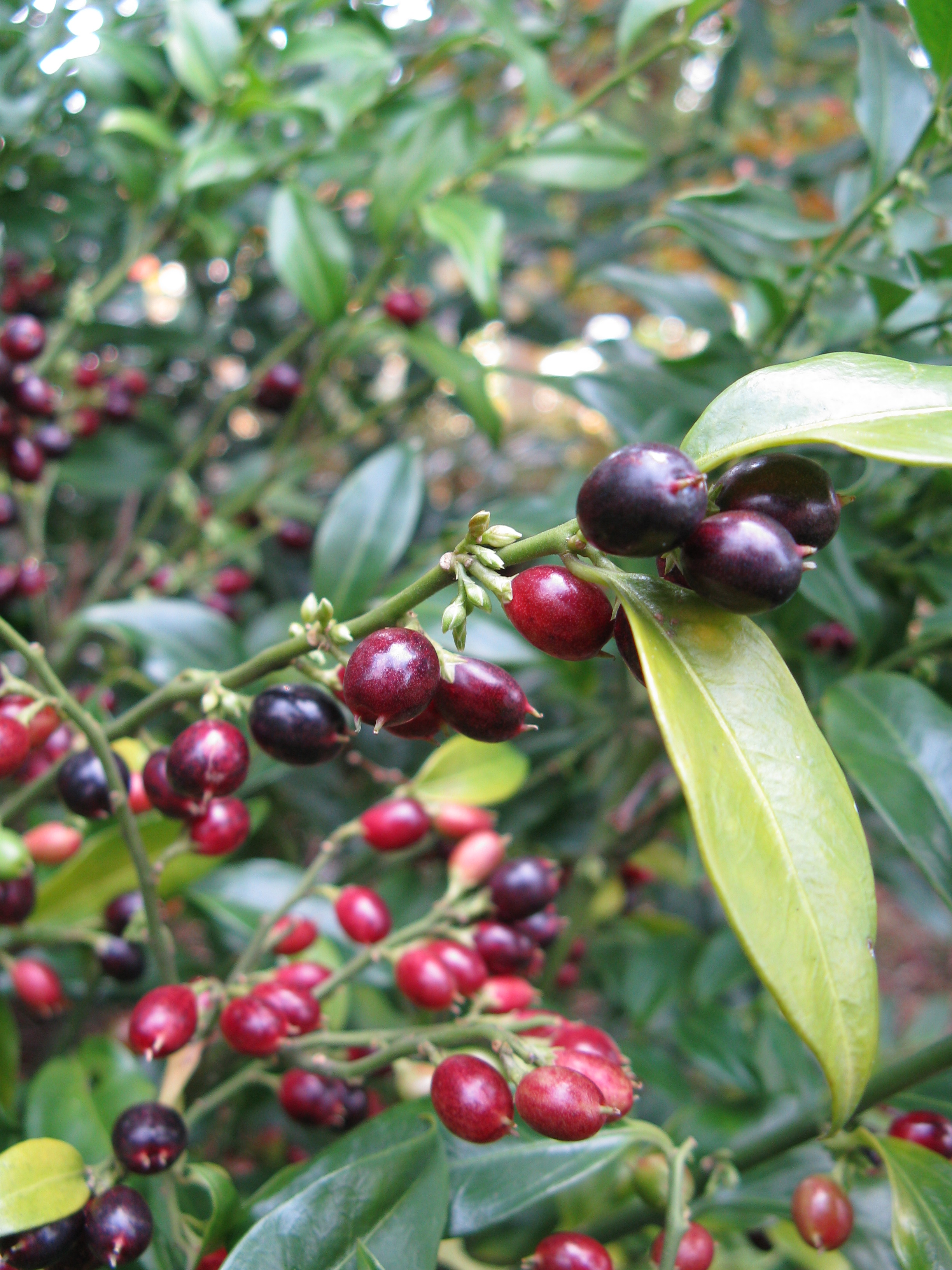 Scientific name Sarcococca hookeriana Place:Osaka,Japan